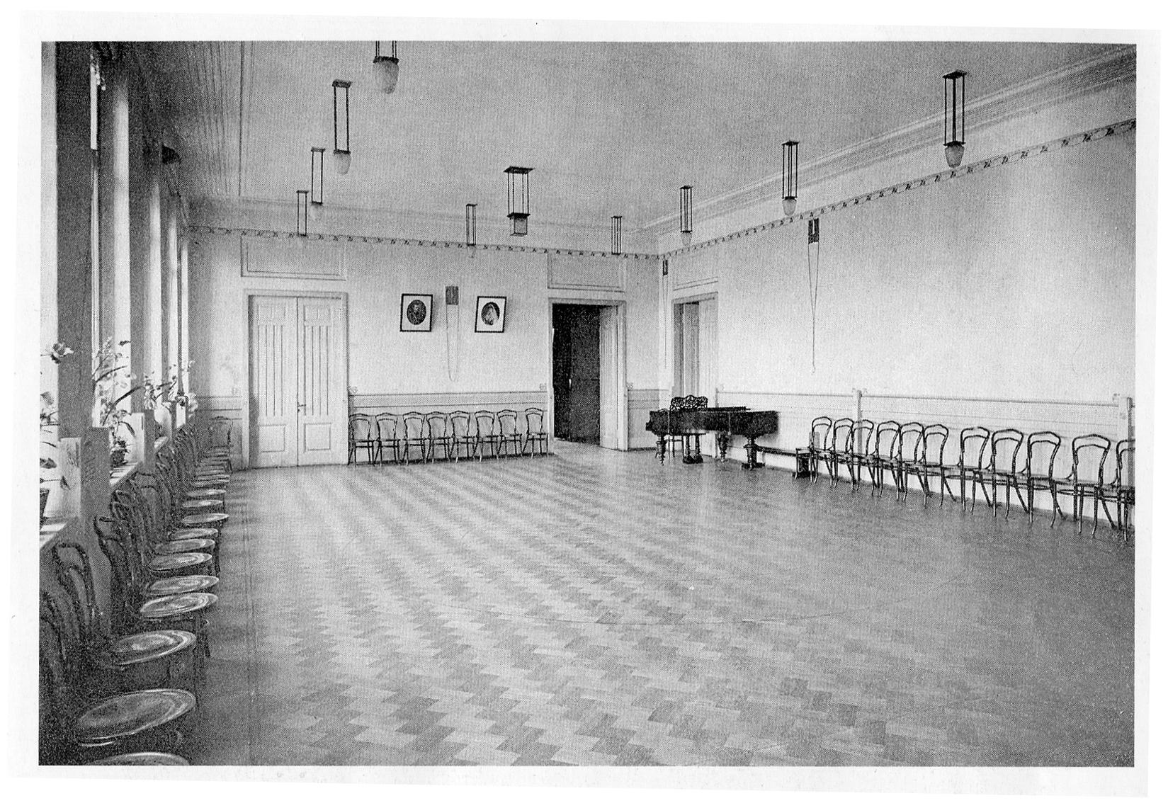 Hall in the Alferov's gymnasium